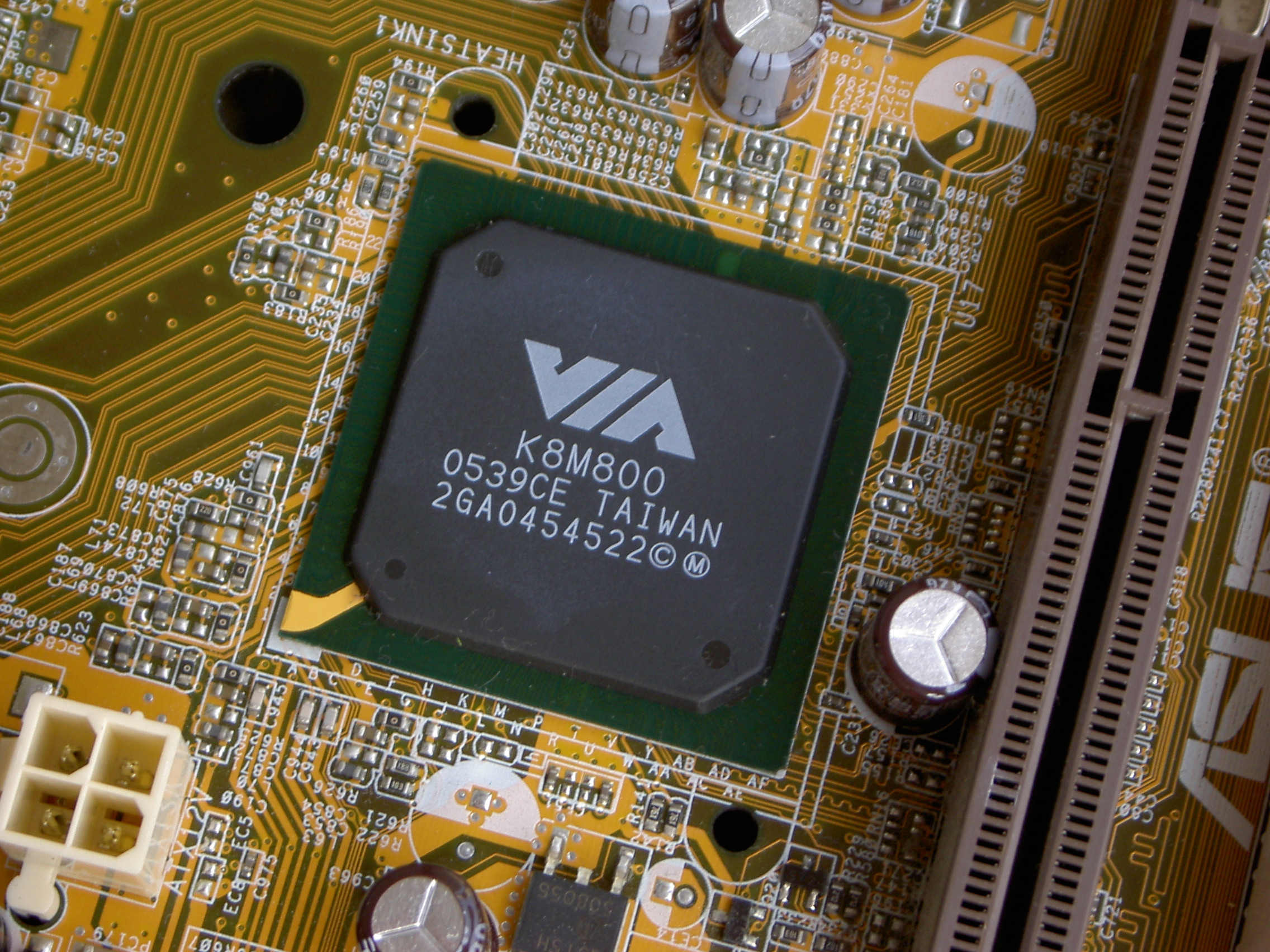 VIA K8M800 North Bridge (UniChrome Pro IGP)